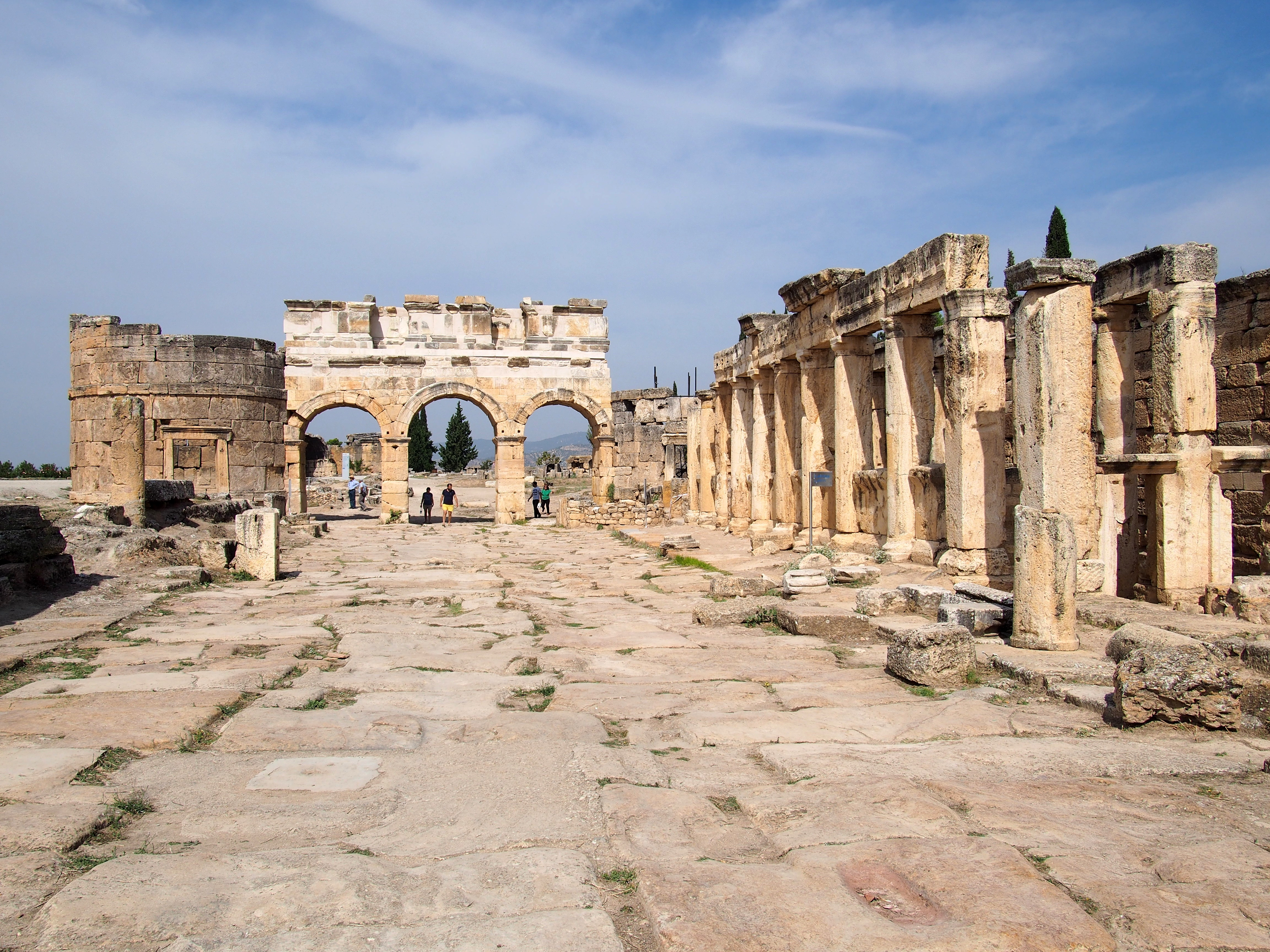 Domitian Arch of Hierapolis - 2014.10